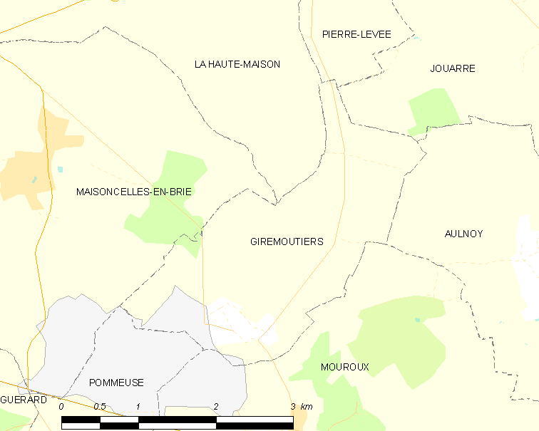 Map of French municipality Giremoutiers